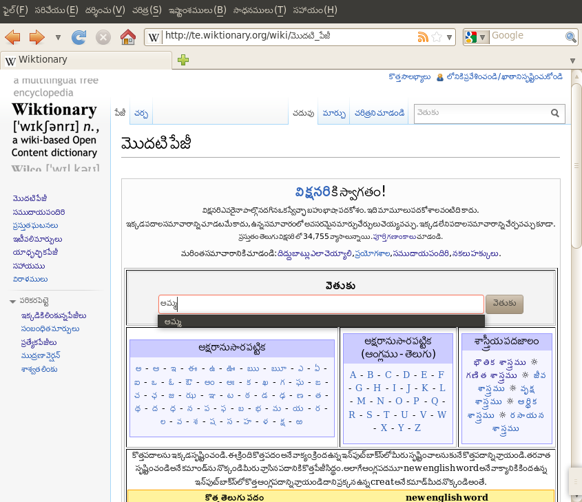 screen shot of